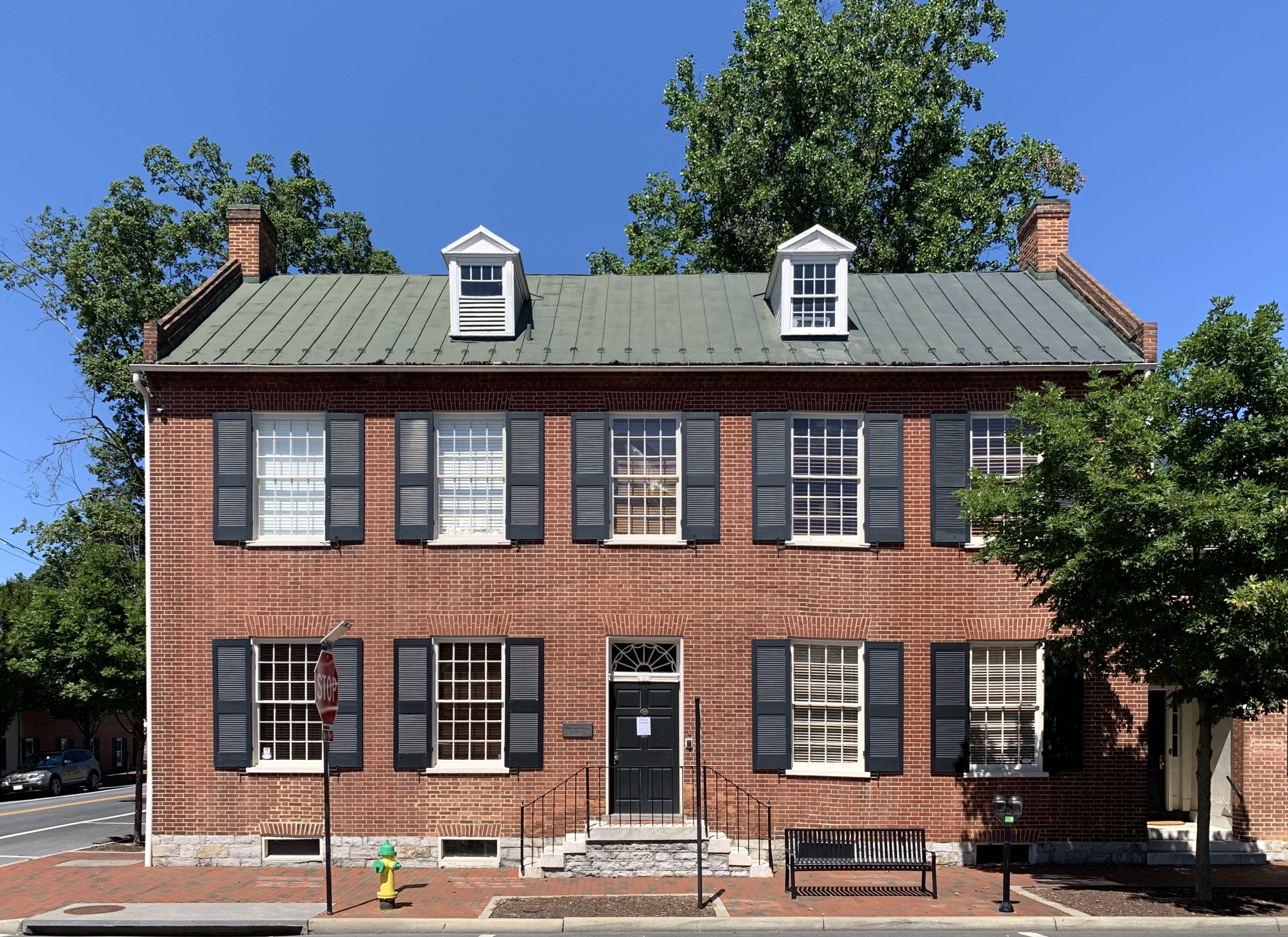 The Hunter H. McGuire House is located at 103 North Braddock Street in Winchester, Virginia. The Federal style house was built around 1825 and was owned by the McGuire family until 1977 when it was purchased by the Owen and Truban law firm. The most well-known previous resident is Hunter McGuire, who was the personal physician to Stonewall Jackson during the Civil War before serving as president of the American Medical Association and helping found the Medical School of Virginia. The building is a contributing property to the Winchester Historic District.